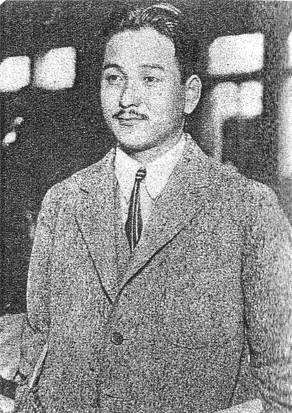 Ippei Okamoto (1886 - 1948) was a Japanese Caricaturist.